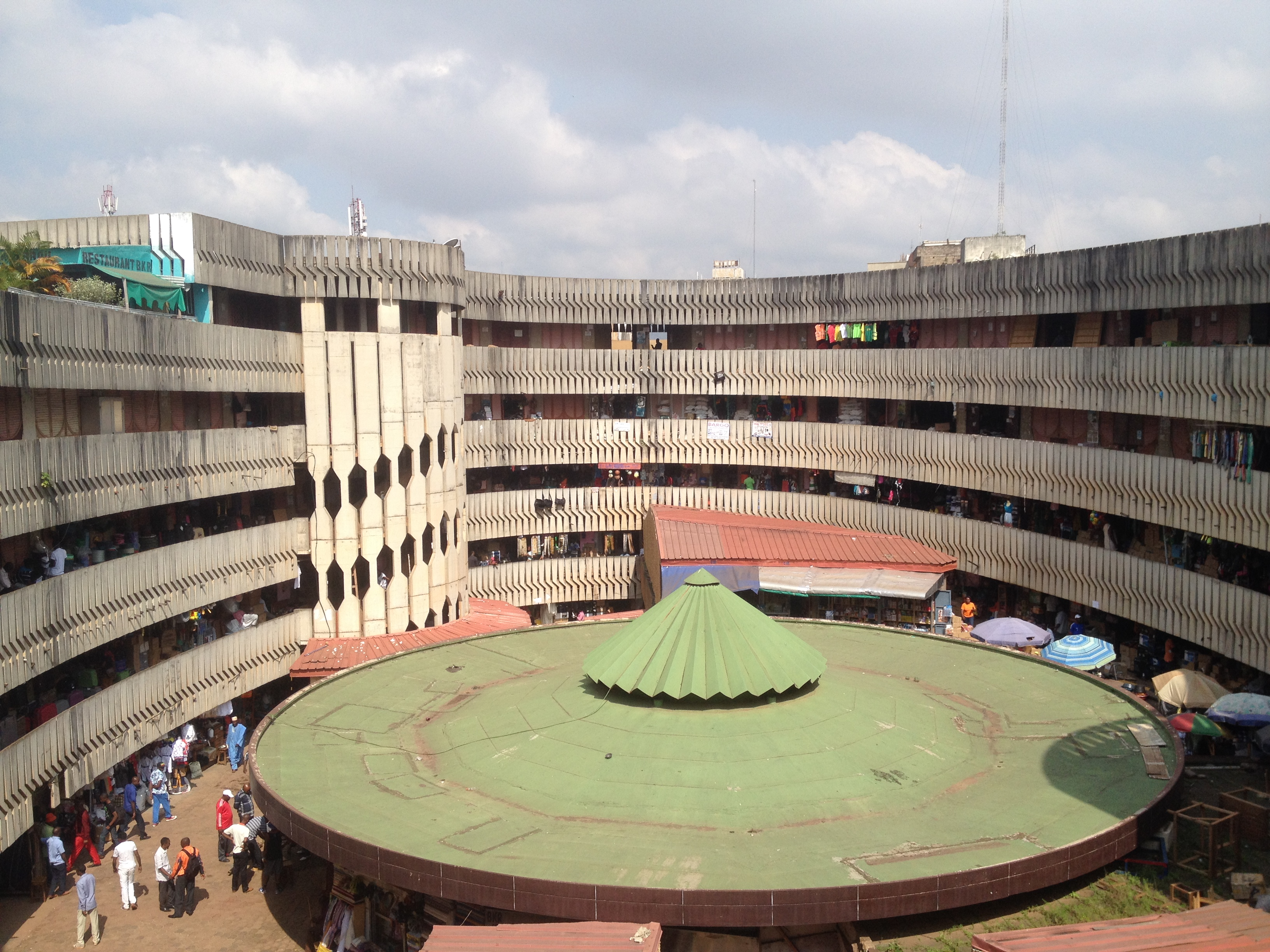 View inside the Central Market in Yaoundé.